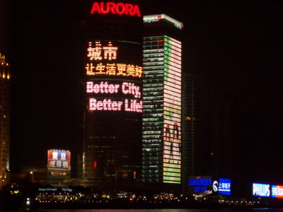 Description Huangpu River at night, Shanghai, China. “Better City, Better Life” is the theme of Expo 2010, which will be held in Shanghai in 2010. Source own work ( Author cedventure Created in 2006